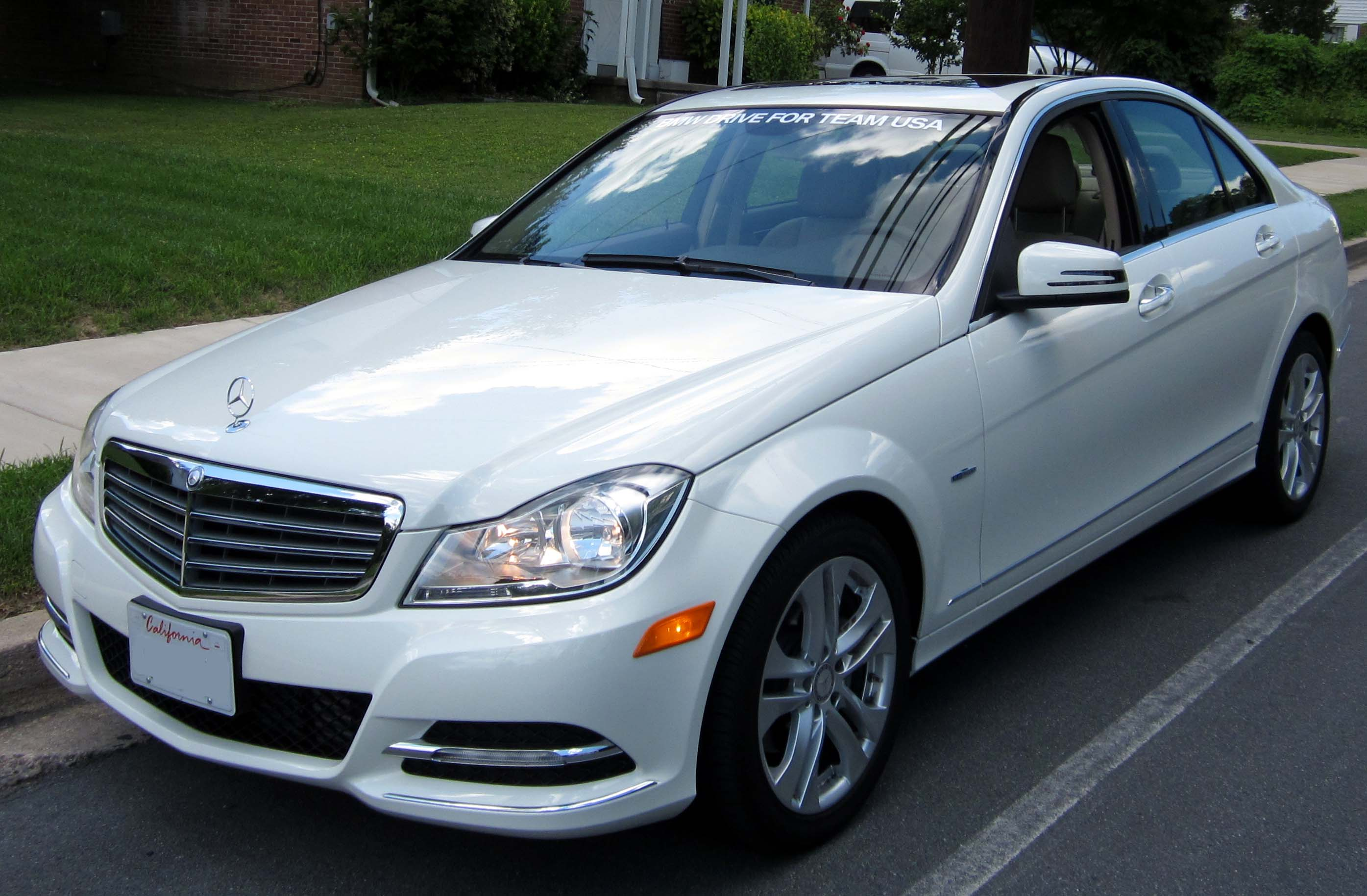 2012 Mercedes-Benz C250 photographed in Rockville, Maryland, USA.